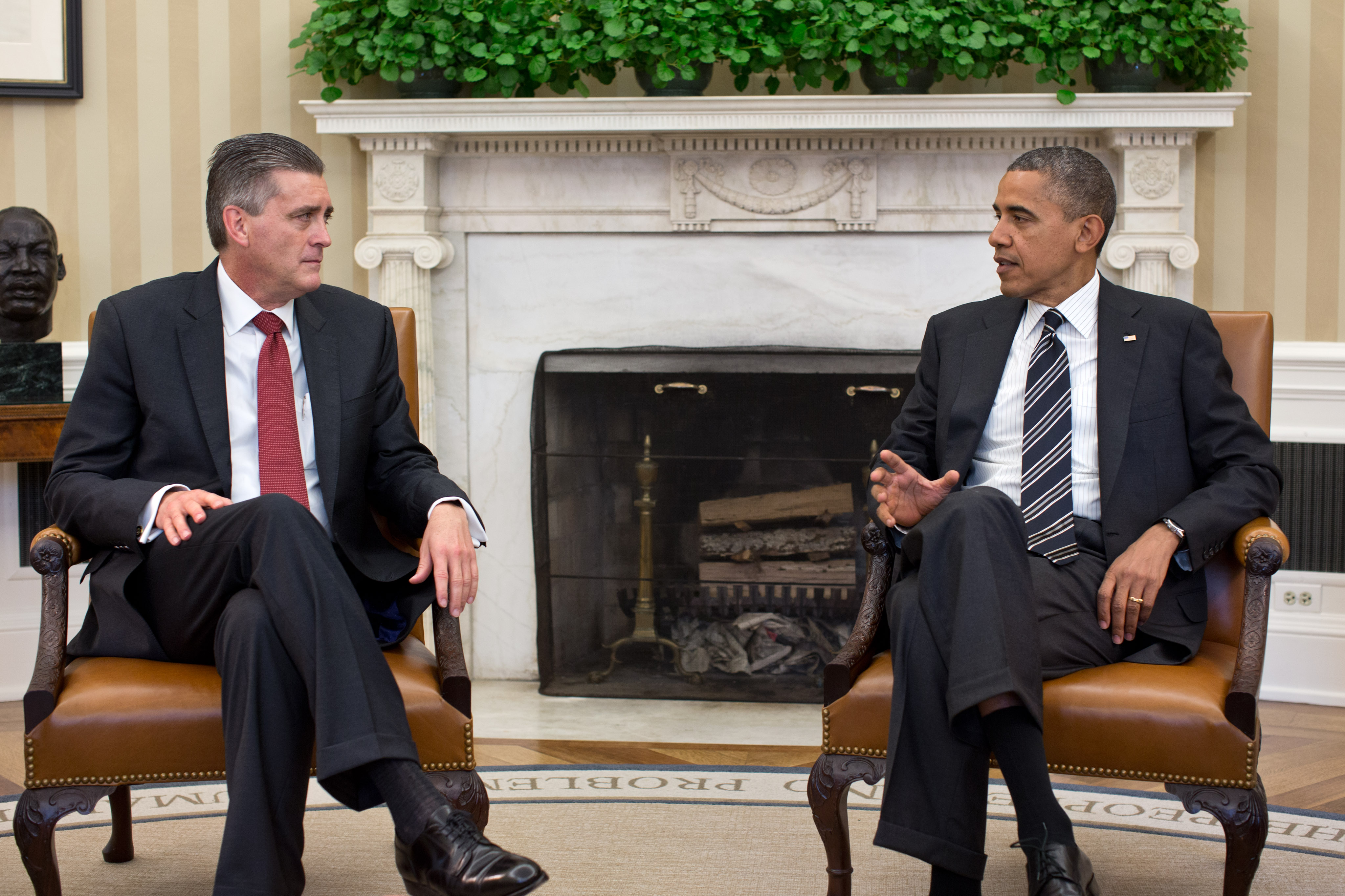 President Barack Obama meets with Rick Olson, U.S. Ambassador to Pakistan, in the Oval Office, Sept. 28, 2012. (Official White House Photo by Pete Souza)